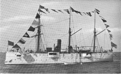 The USS Bancroft, an American gunboat and practice ship built in 1891.